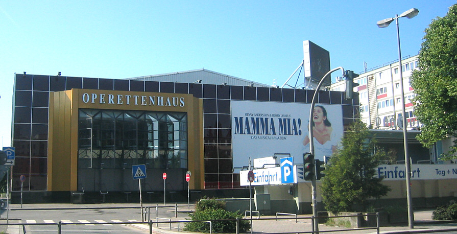 Hamburg, Germany: Operettenhaus (advertising the ABBA musical Mamma mia!)